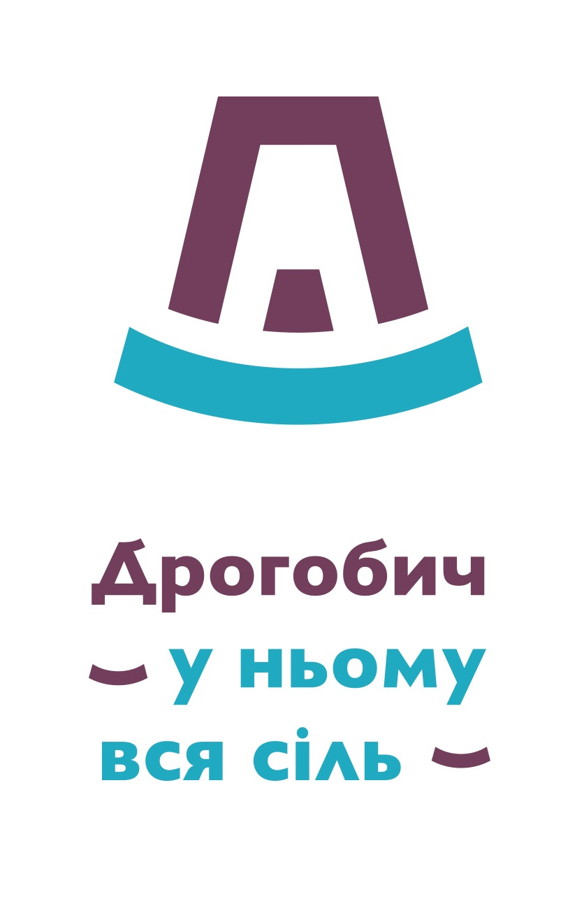 The tourist logo of Drohobych from May 25, 2018, created by Oleg Bilyi.